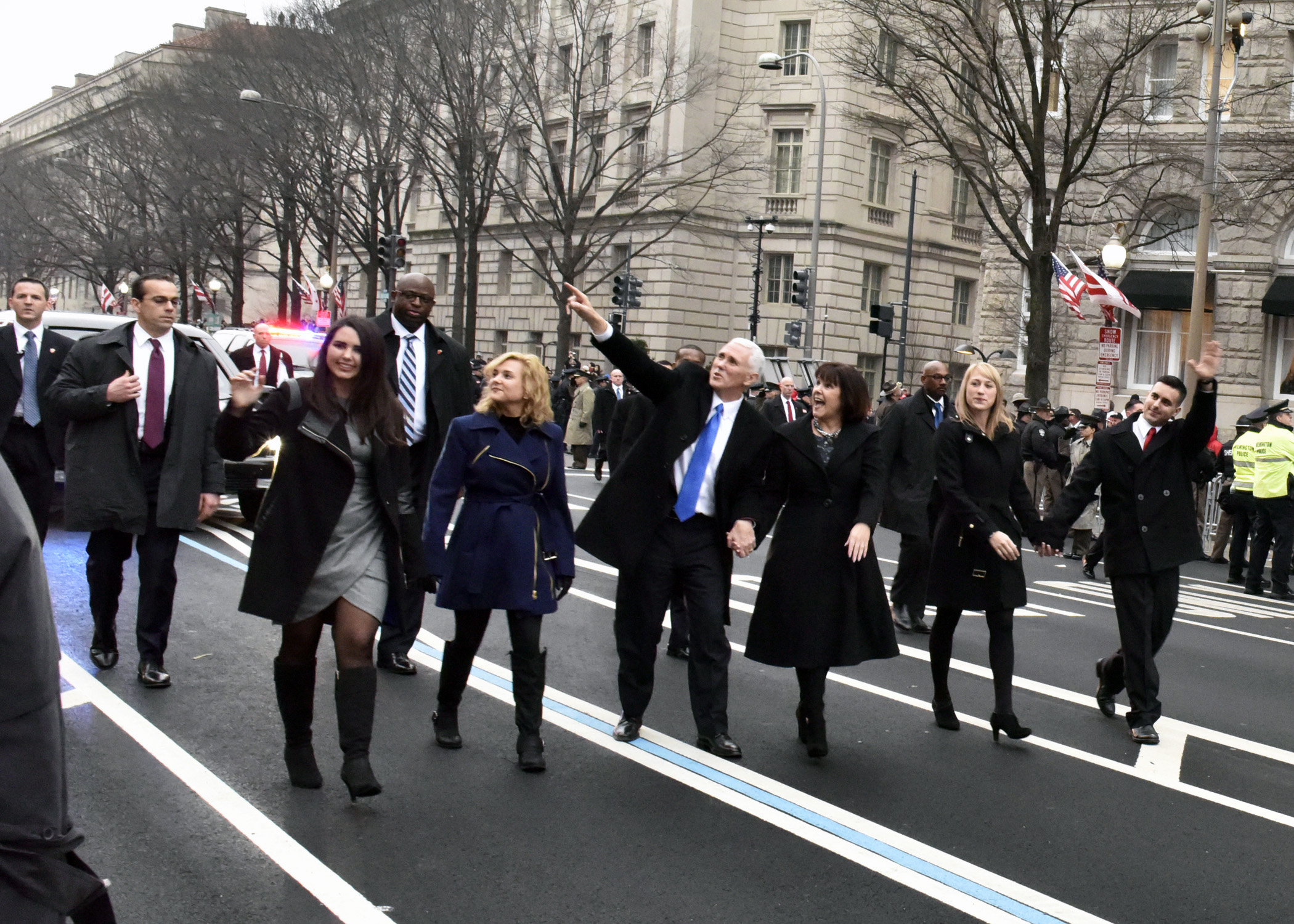 WASHINGTON - The U.S. Secret Service protection to multiple presidential families; secured 1.9 miles of parade route and manned 38 screening stations screening an average of 1,500 attendes per hour for the inauguration, on Jan. 20, 2017 in Washington, D.C. The United States Secret Service is a federal law enforcement agency with headquarters in Washington, D.C., and more than 150 offices throughout the United States and abroad. Established in 1865 solely to suppress the counterfeiting of U.S. currency, today the Secret Service is mandated by Congress to carry out the integrated missions of protection and investigations. Official DHS photo by Barry Bahler.